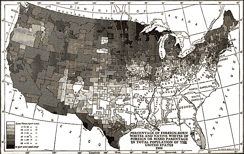 1910 Map of United States showing Native White versus Immigrant White populations.